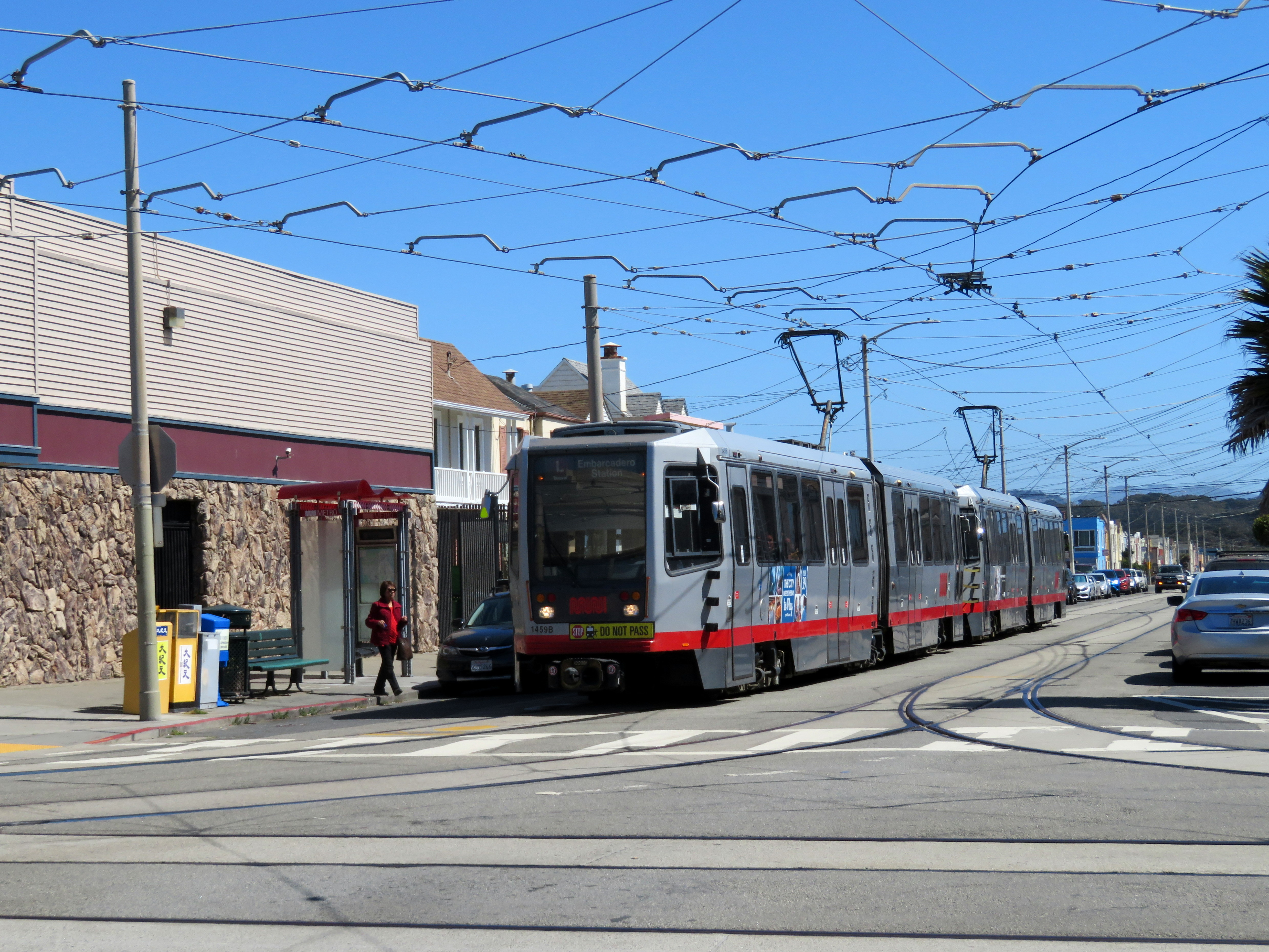 Inbound train at 46th Avenue and Taraval in June 2018